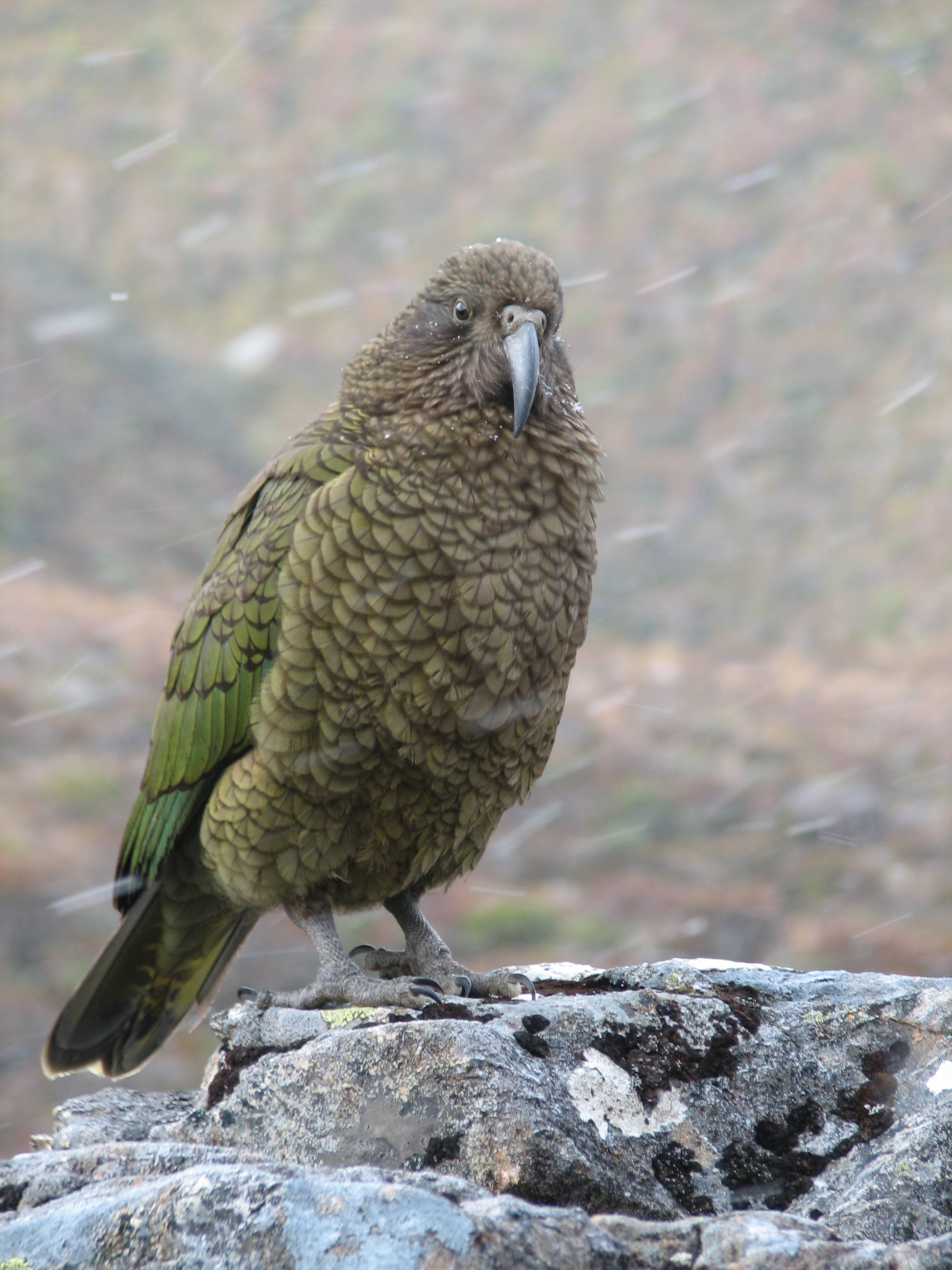 An adult Kea (Nestor notabilis) perching on a rock while it was snowing at Arthur's Pass, New Zealand.